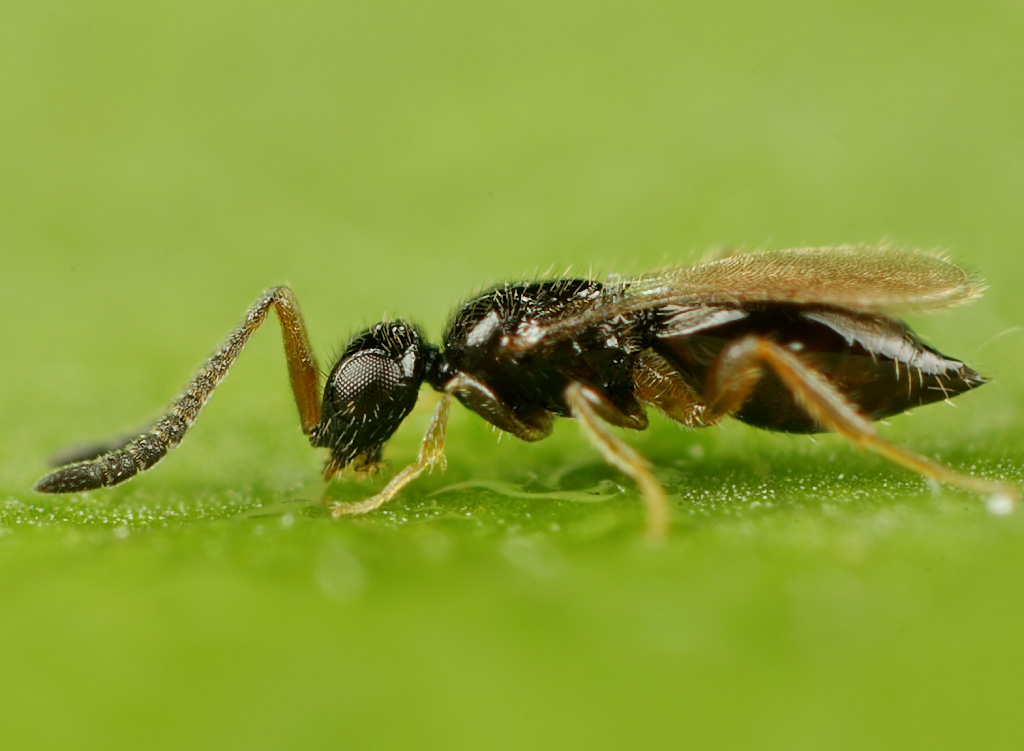 Ceraphronidae